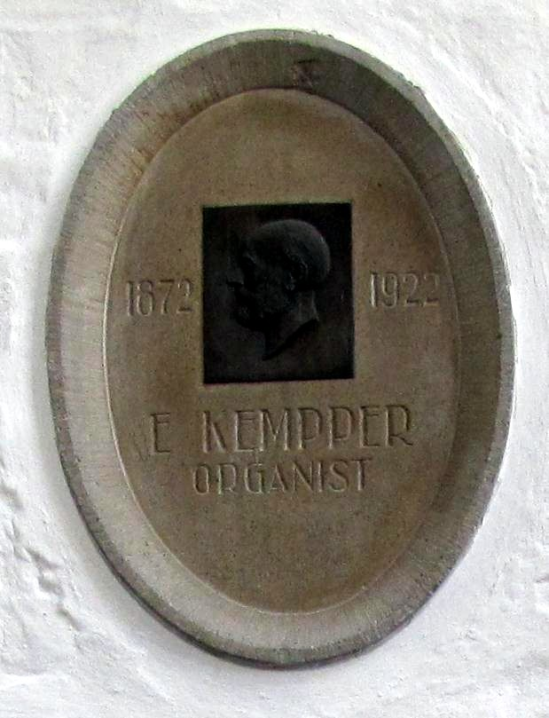 Plaque commemorating the 50th anniversary of Emanuel Kemper as organist in St. Jakobi Lübeck, 1922